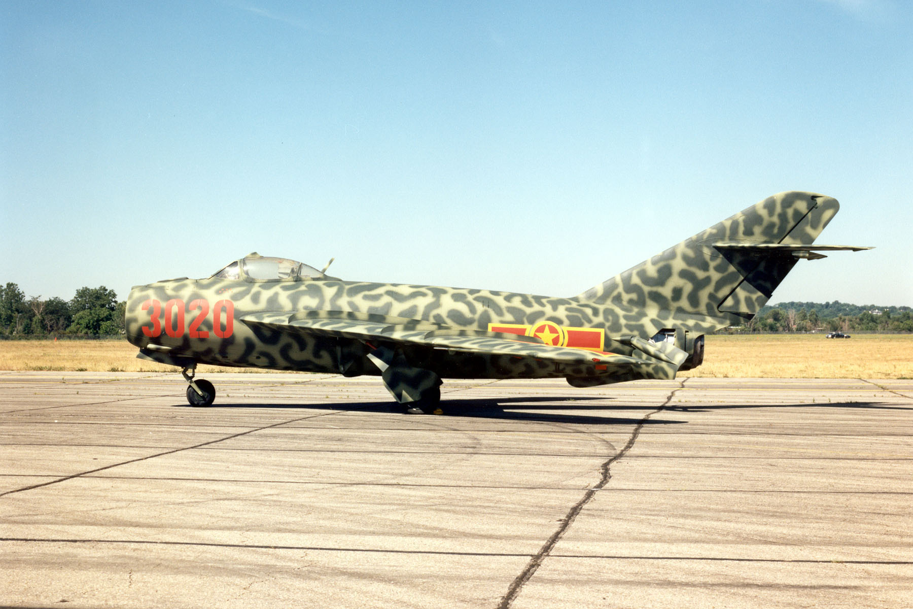 A Mikoyan-Gurevich MiG-17F in Vietnamese colours at the National Museum of the United States Air Force